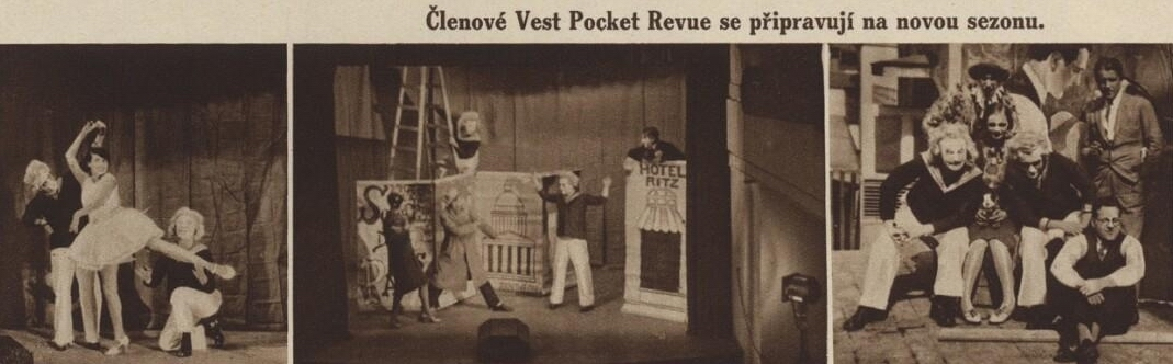 Vest pocket revue, Osvobozené divadlo 1927